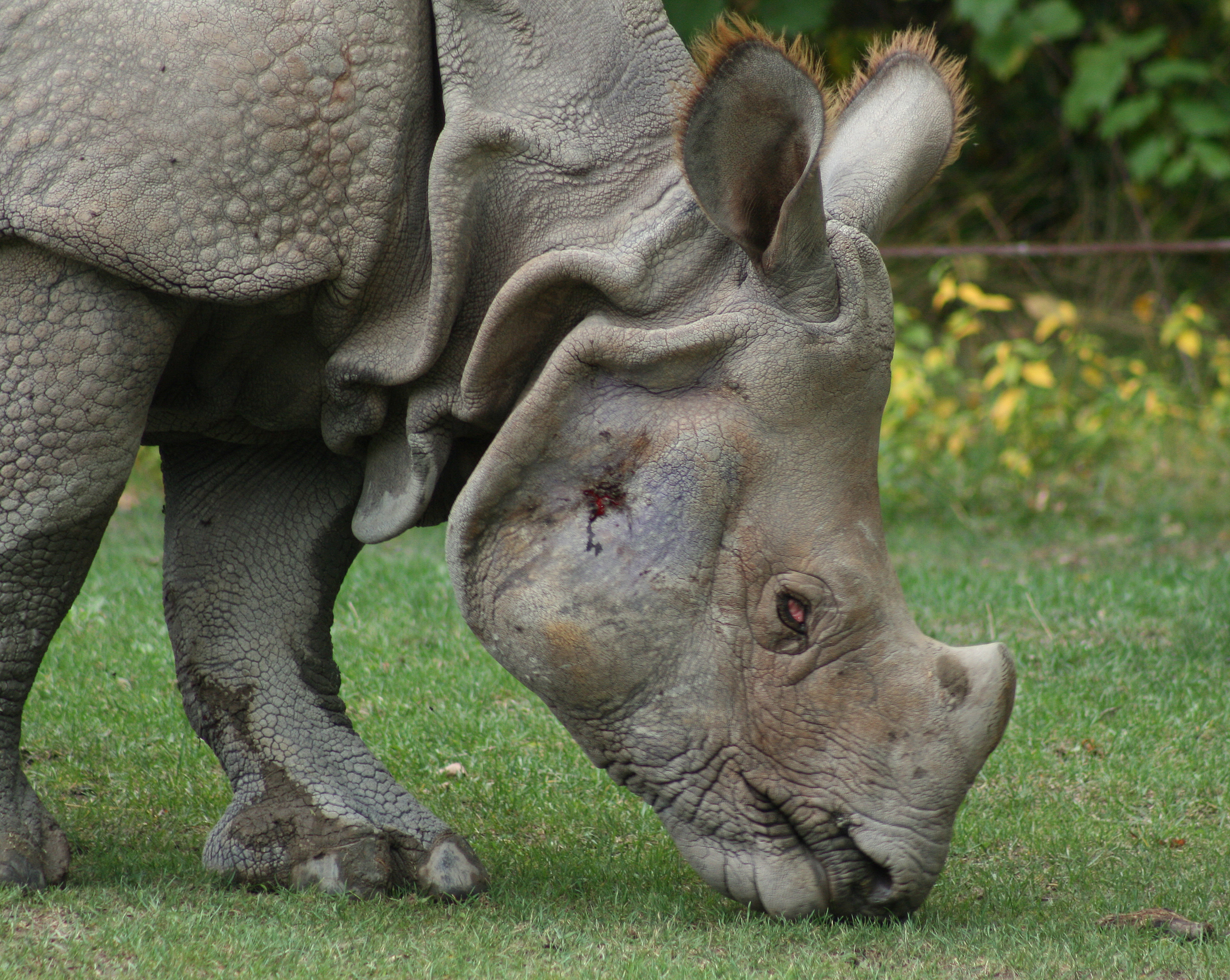 Indian Rhino (Rhinoceros unicornis) at the Metro Toronto Zoo.